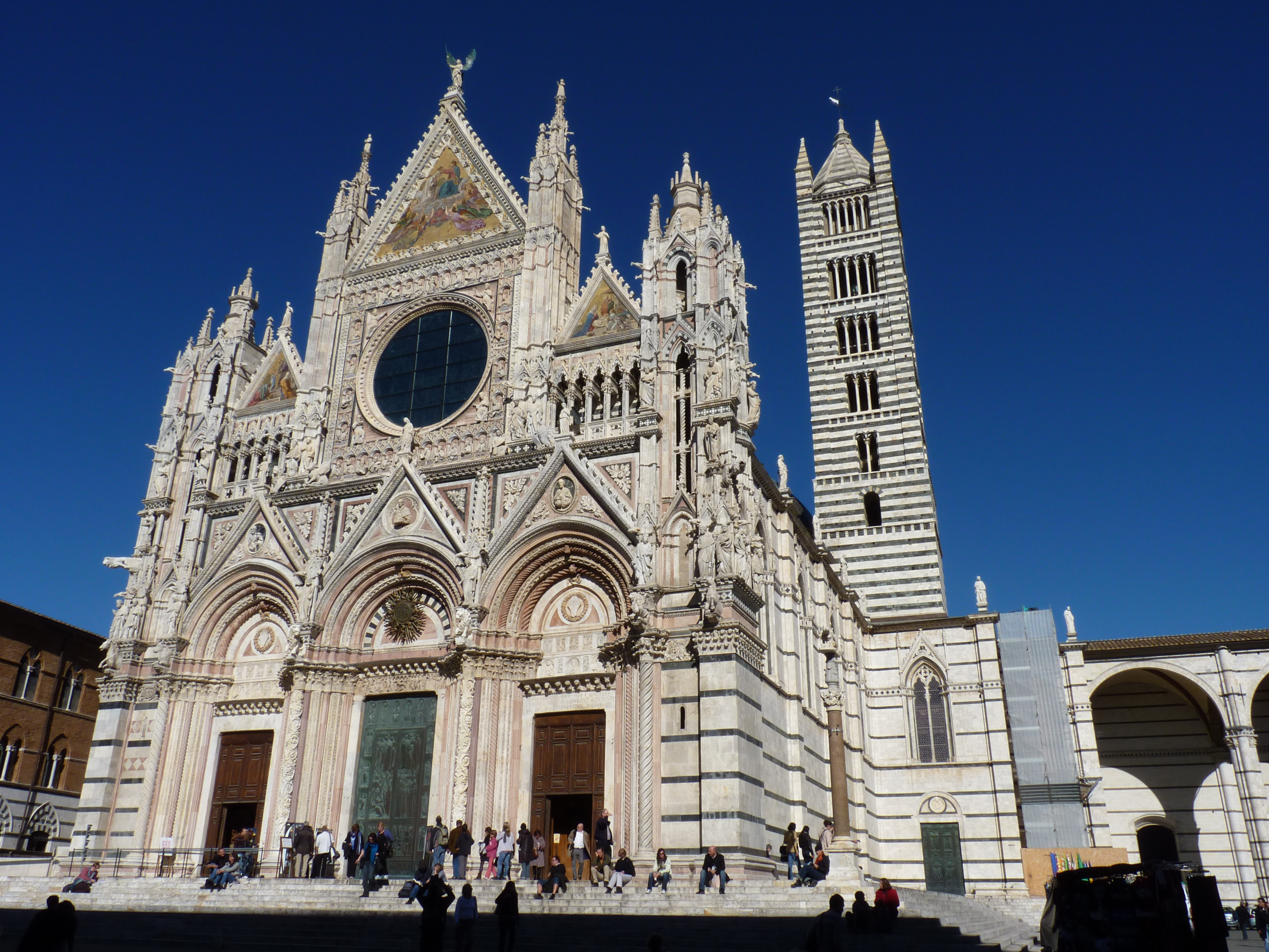 The facade of the Cathedral in Siena.